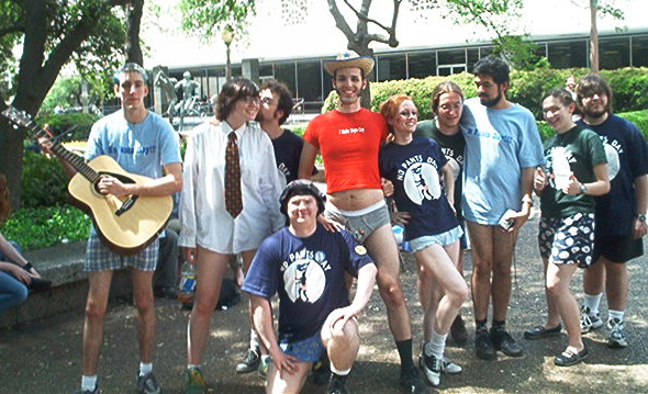 No Pants Day Celebration in Austin, Texas from 2004. This picture was created by me, Roy Janik. The file is available online, here